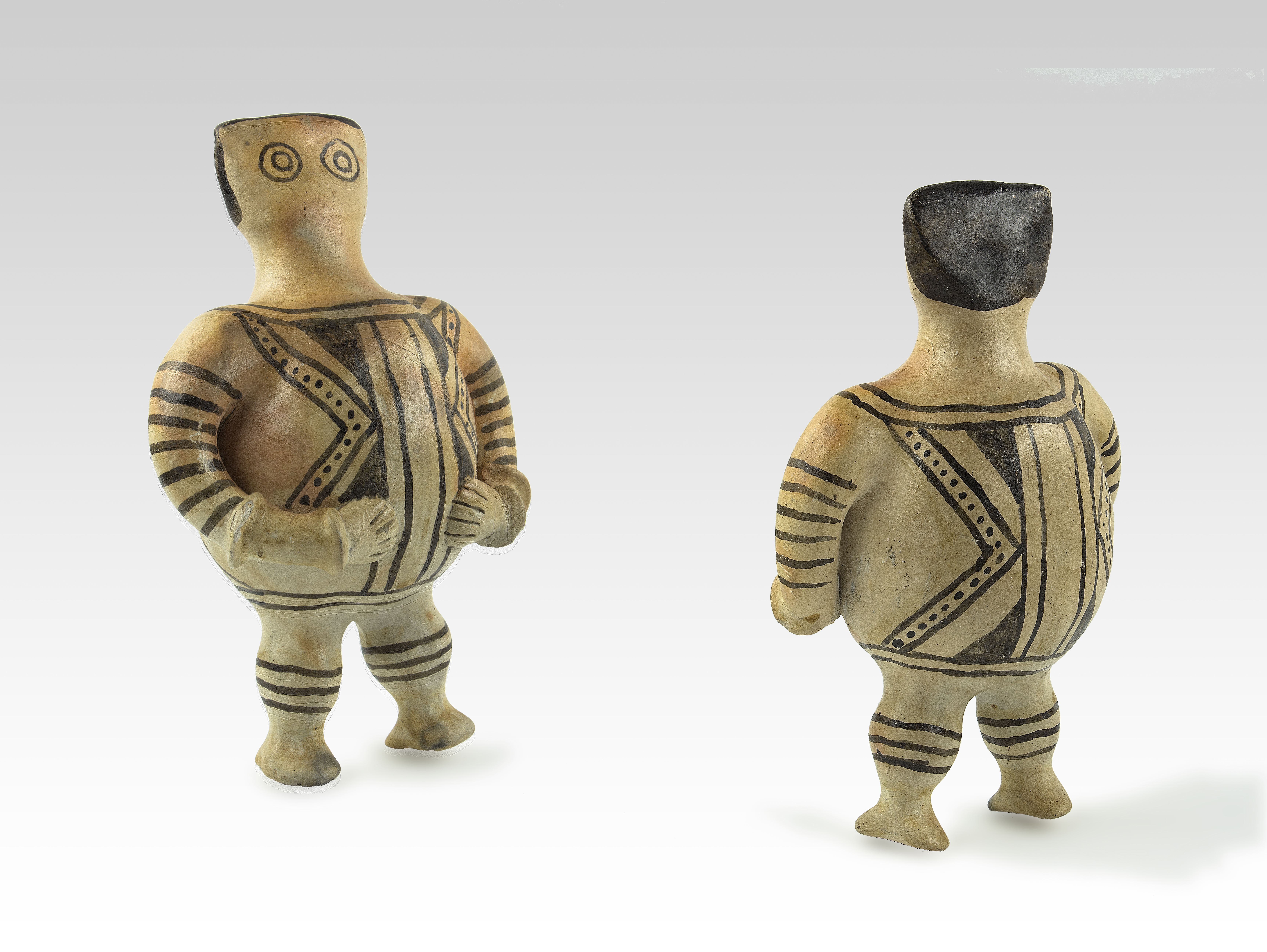 mythical being size : 17,0 x 11,5 x 7,0 cm material : clay technique : ceramic